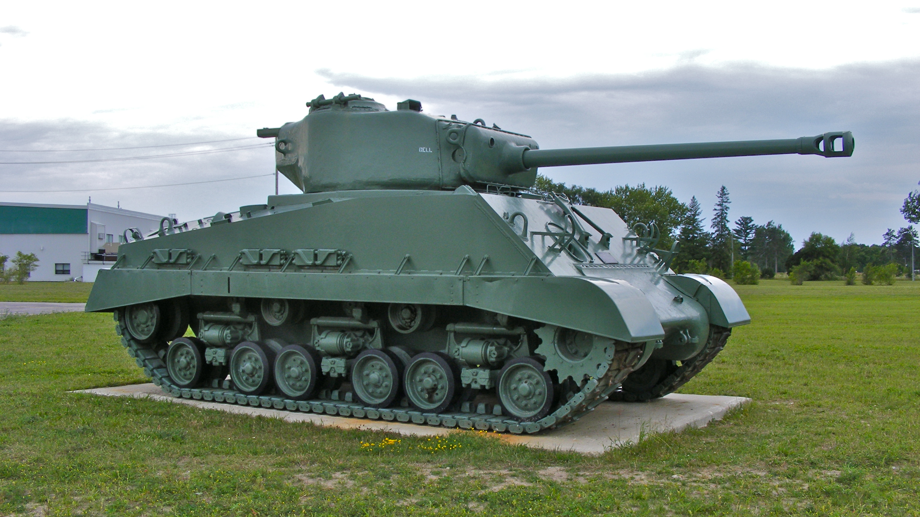 Sherman M4A2E8 at CFB Borden.